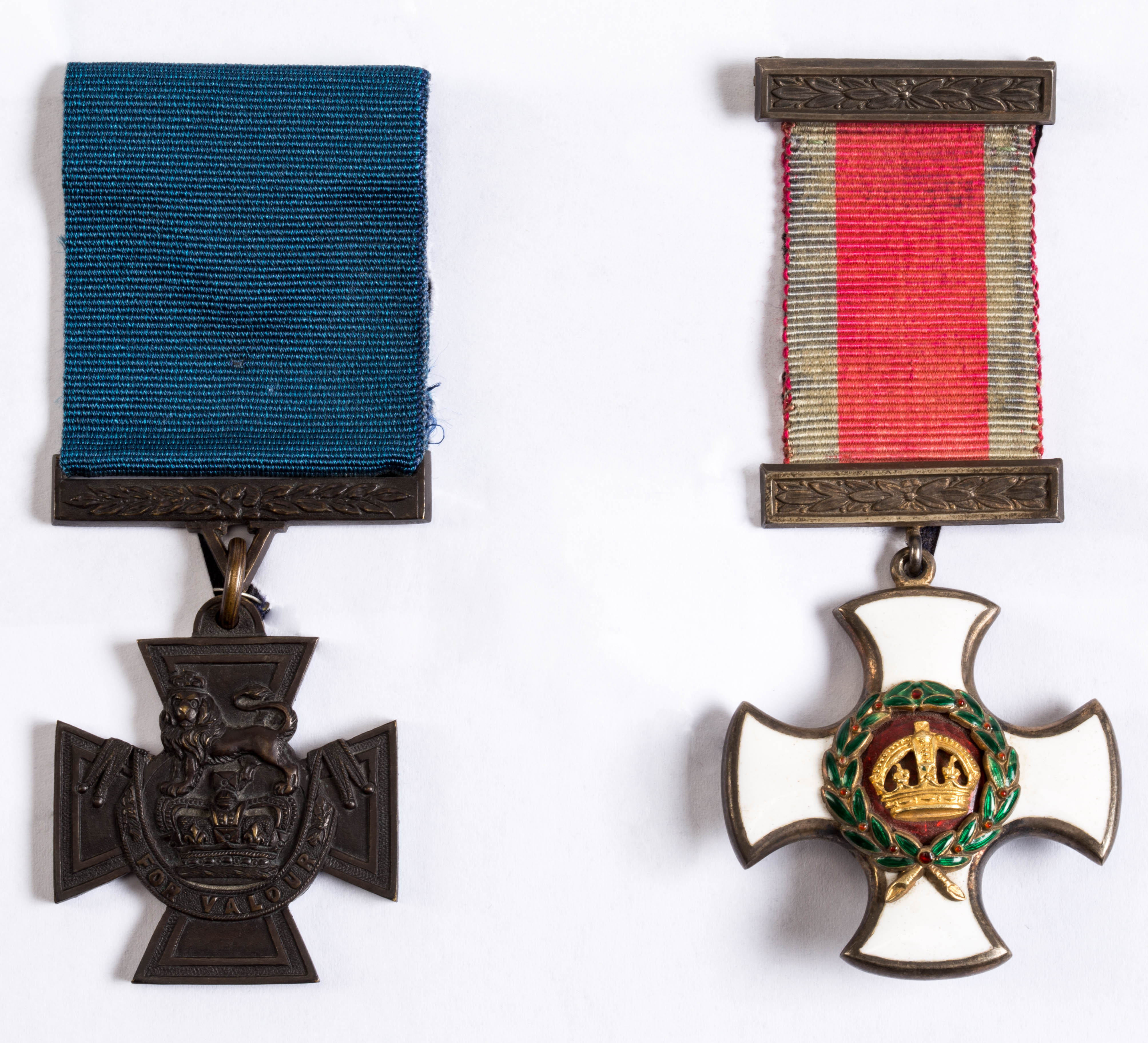 Distinguished Service Order (DSO), WW1 Awarded to William Edward Sanders Royal Navy silver gilt cross with curved ends overlaid with white enamel; with ribbon; swivel ring suspension with straight laureate bar obverse- a green laurel wreath around imperial crown reverse- a green laurel wreath around royal monogram ribbon- crimson with dark blue edges